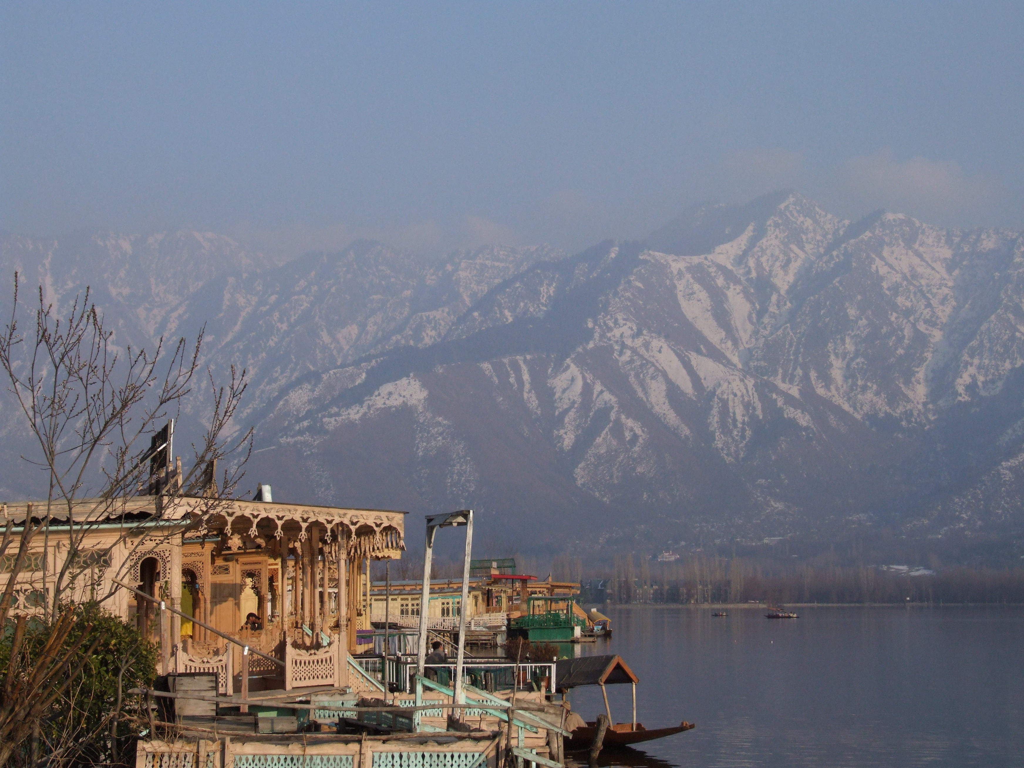 Dal Lake, Srinagar